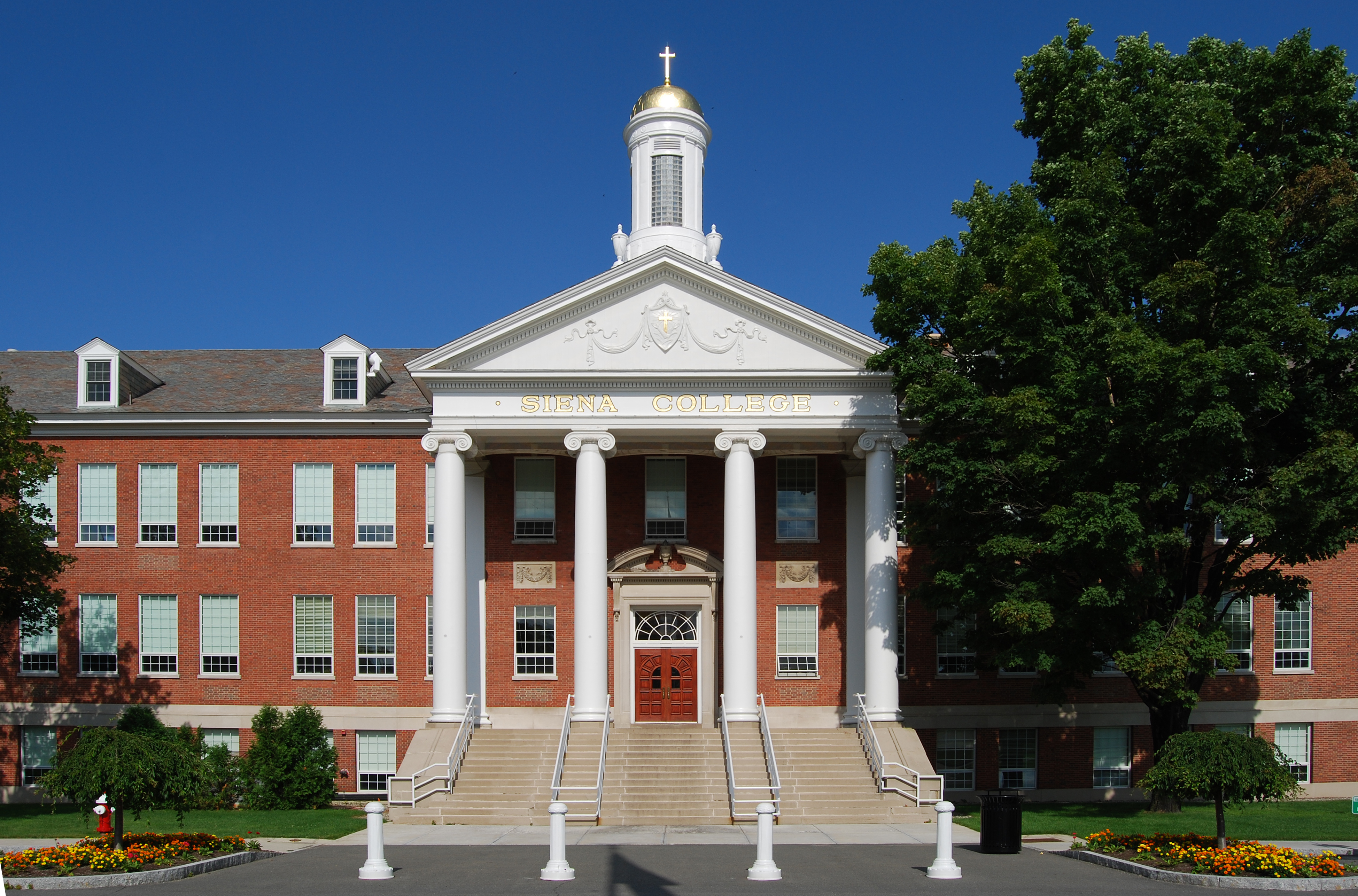 Siena Hall, on the campus of Siena College in Colonie, New York, United States